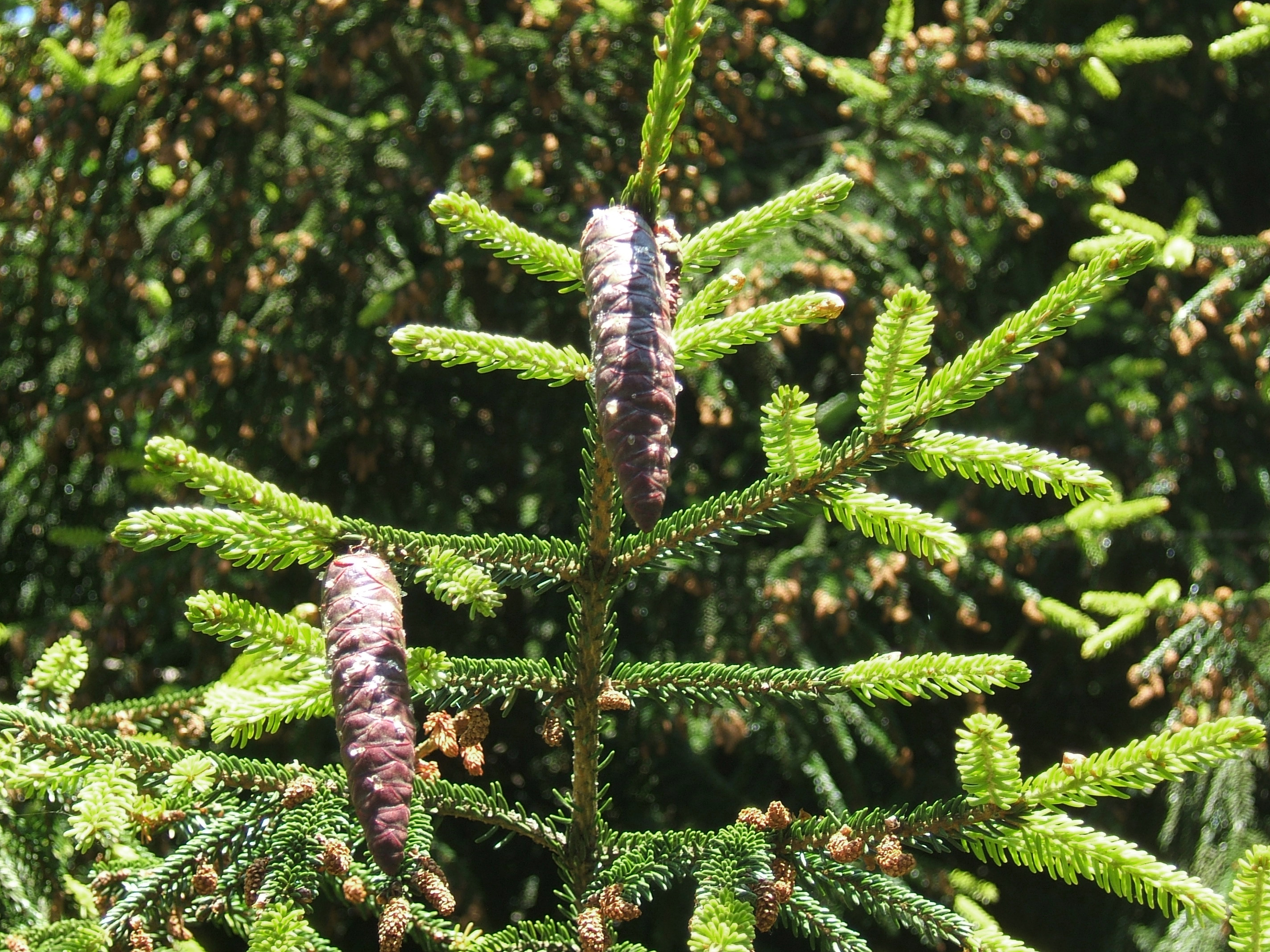 Picea orientalis foliage, seed cones (large, purple) and old pollen cones (small, brown); cultivated, Wallington Hall, Northumberland, UK; July 2006